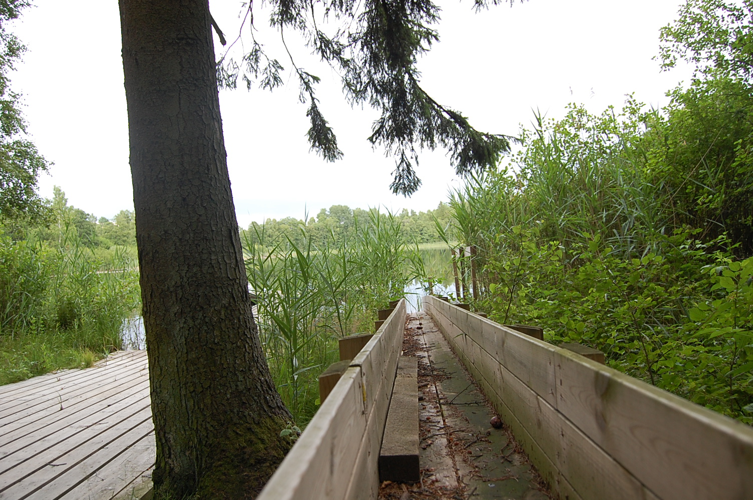 The salmon-inplanting place in the lake Grundsjön in the county of Sölvesborg in Sweden